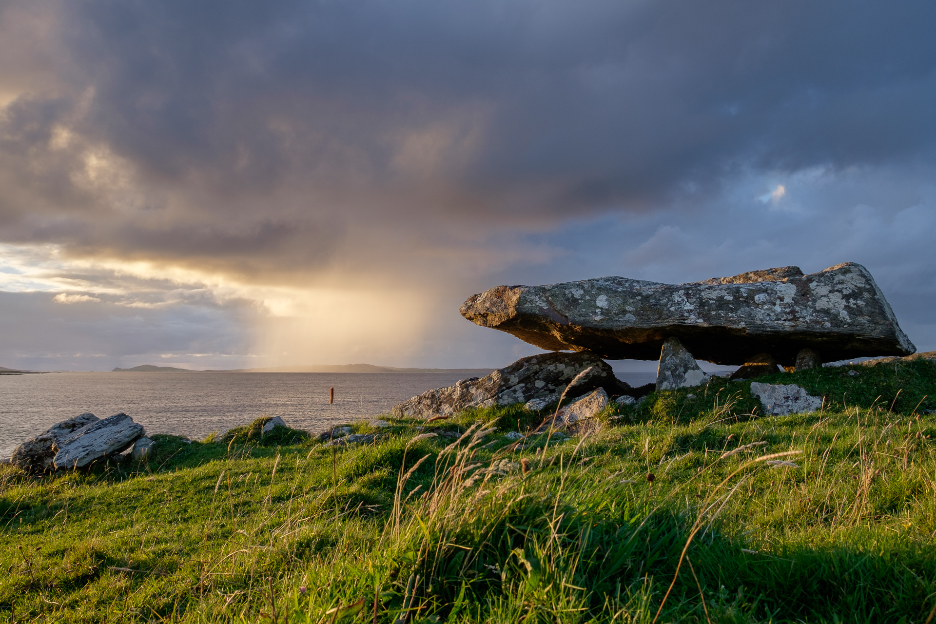 Knockbrack Megalithic Tomb, by Sellerna Beach, Cleggan, Co. Galway. The tomb lines up with the island of Inishbofin (Inis Bó Finne) which is can be seen on the horizon to the left of the tomb.